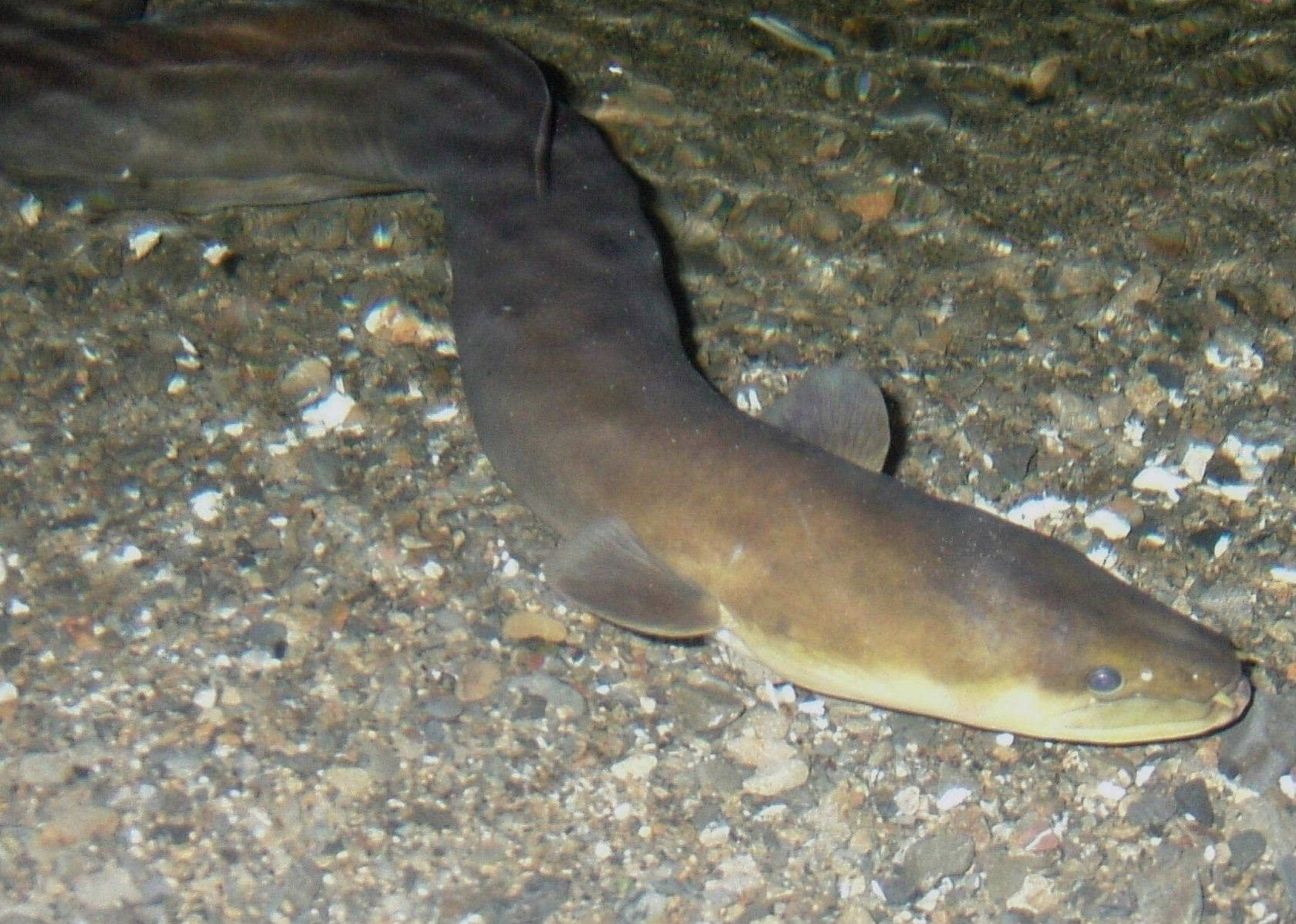 New Zealand Longfin eel (Anguilla dieffenbachii) seen in a river at night in the Tararua Ranges